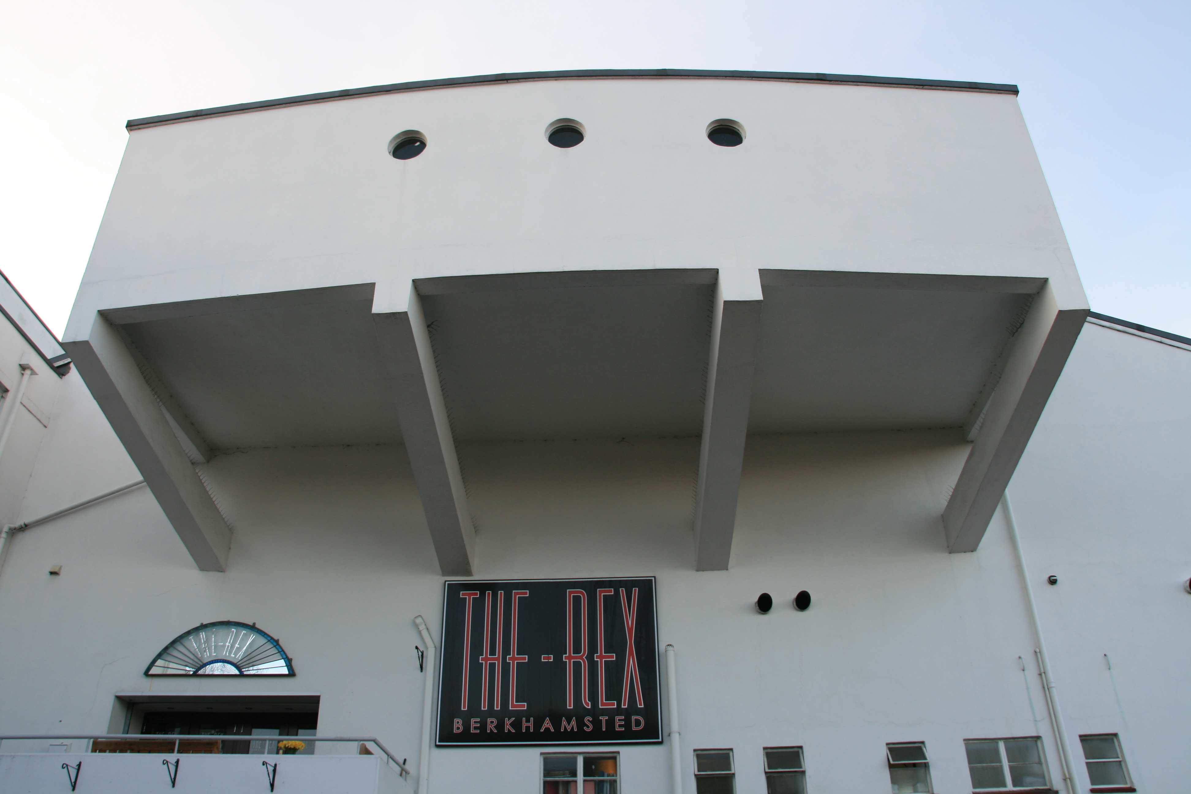 The projecting projection room of the Art Deco Rex Cinema in Berkhamsted, Hertfordshire, UK